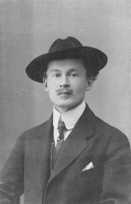 Kössi Ahmala